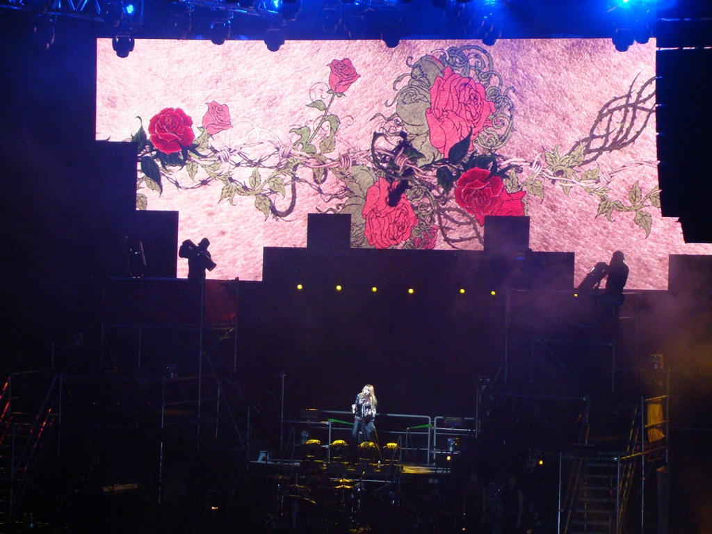 Miley Cyrus singing live in Curicica, Rio de Janeiro, RJ, BR from her tour 'Gypsy Heart'